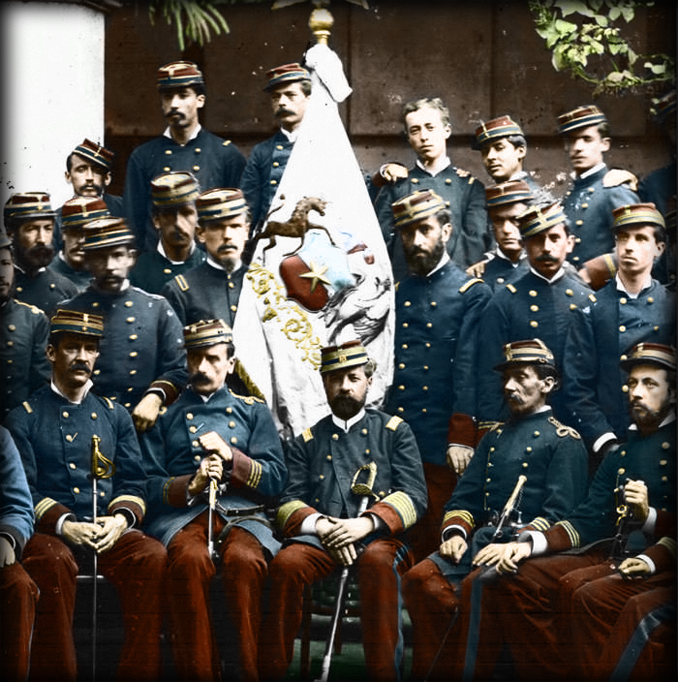 Officials of the victorious battalion in Chorrillos, in the 1881 war between Chile and Peru